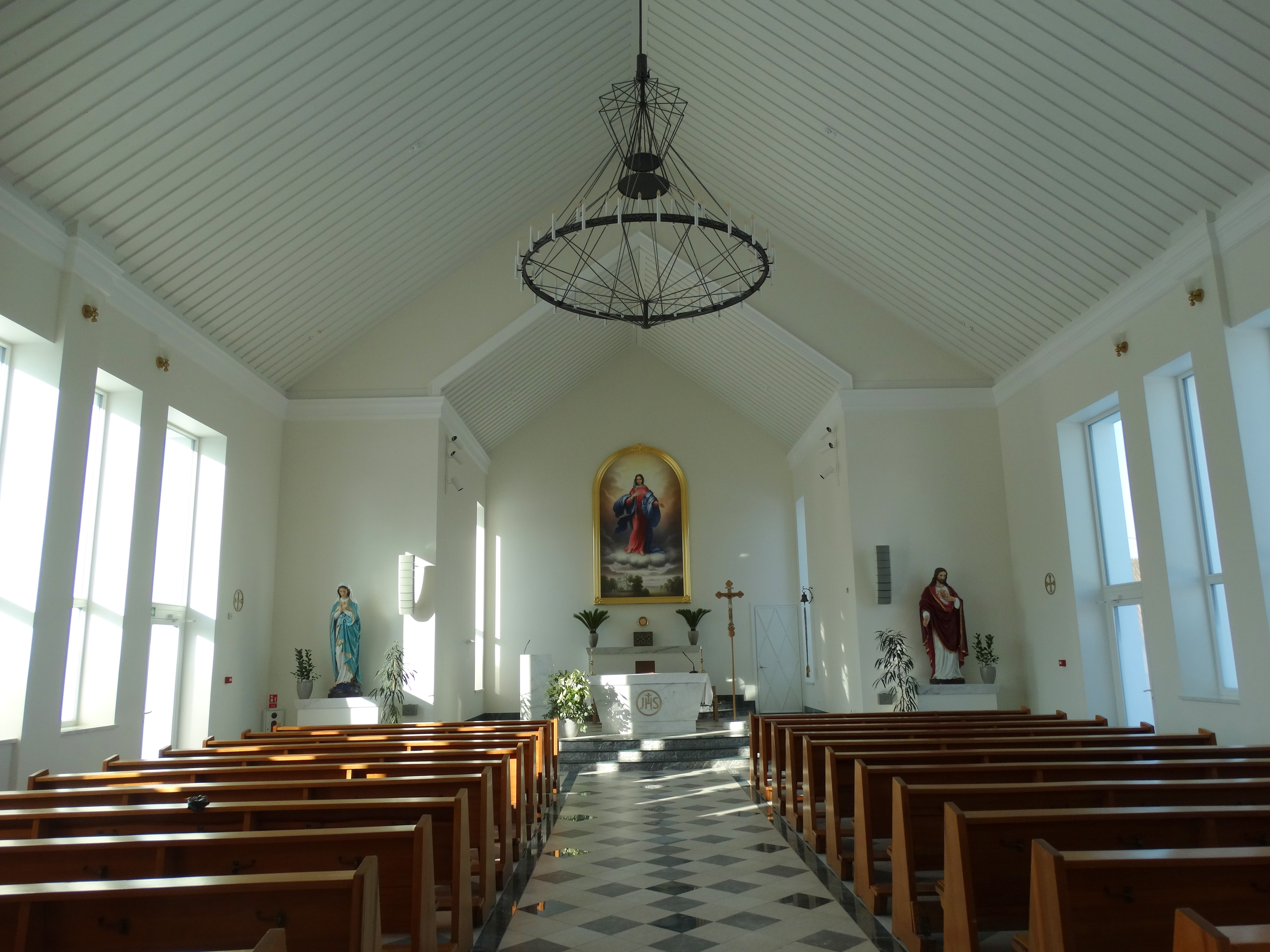 Roman Catholic Church, interior, Balbieriškis, Lithuania